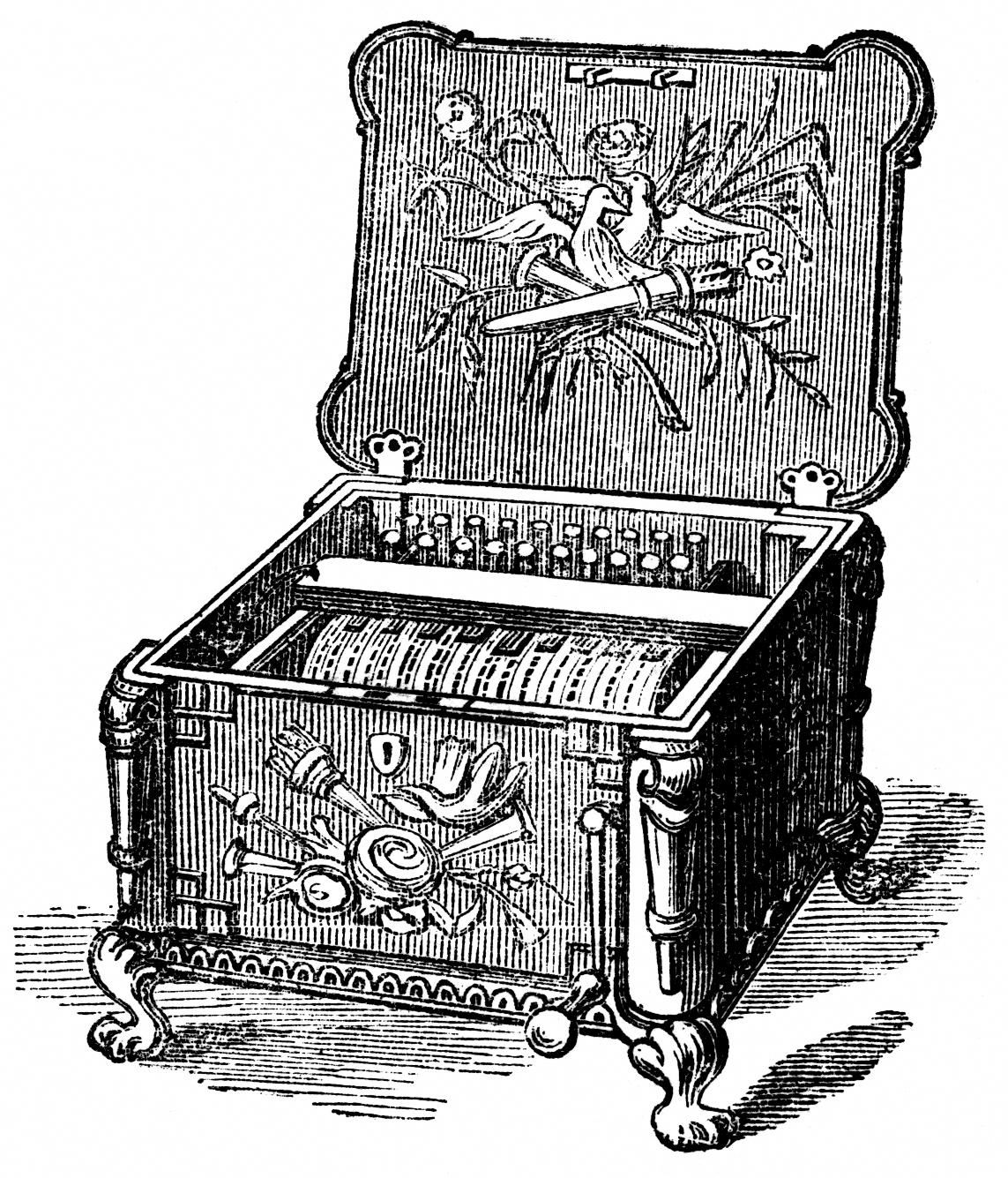 A serinette is a miniature French barrel organ, also called a bird-organ, which plays small wind pipes. The name bird organ comes from the way that these organs were used to teach birds to sing. Serinettes existed that could play four or more different tunes.